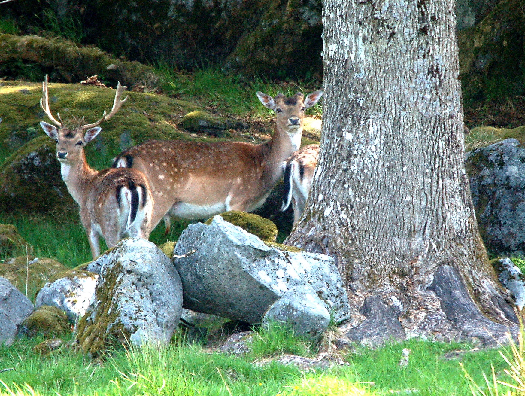 Fallow Deer (Dama dama), Fritzøehus Park, Larvik, Norway